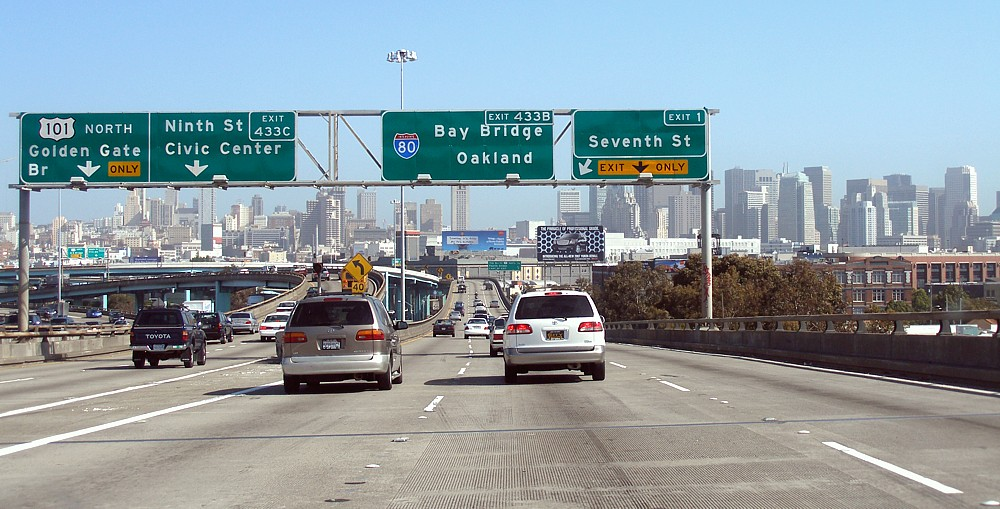 The interchange of Interstate 80 with U.S. Highway 101 in San Francisco. This is where Interstate 80 starts or ends, depending upon which way one is traveling.